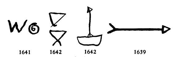 Marks of Narragansett sachem Miantonomo (Miantonomi) on several deeds or papers.